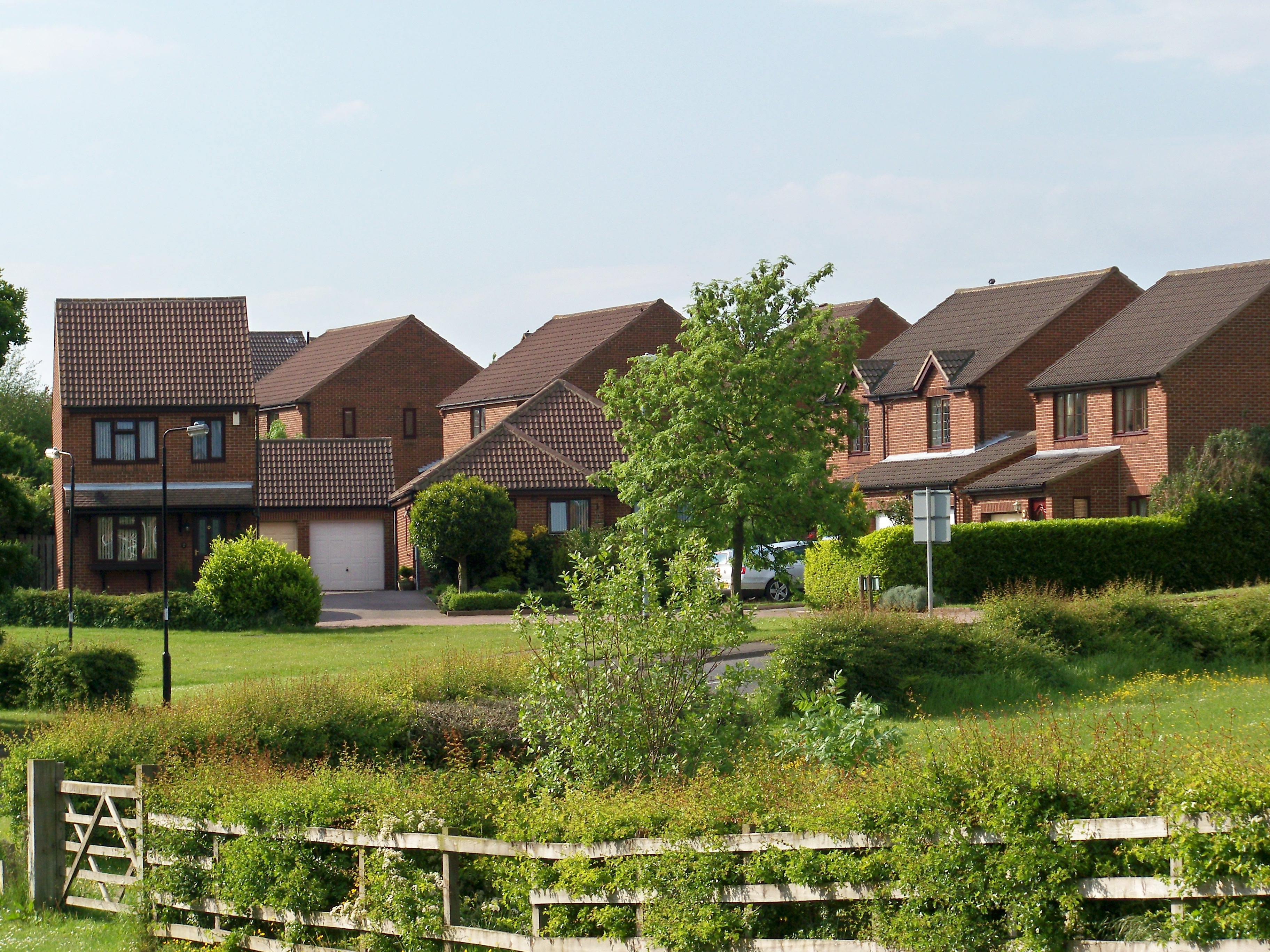 Newer housing in Colton, Leeds, West Yorkshire. Taken on the afternoon on the 24th May 2009.